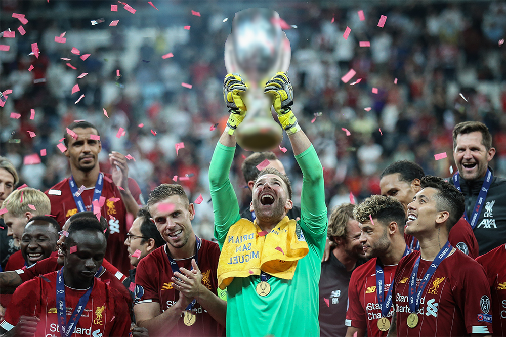 Liverpool vs. Chelsea, 2019 UEFA Super Cup